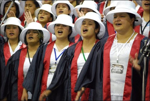 women serving the worship choir required to wear hats